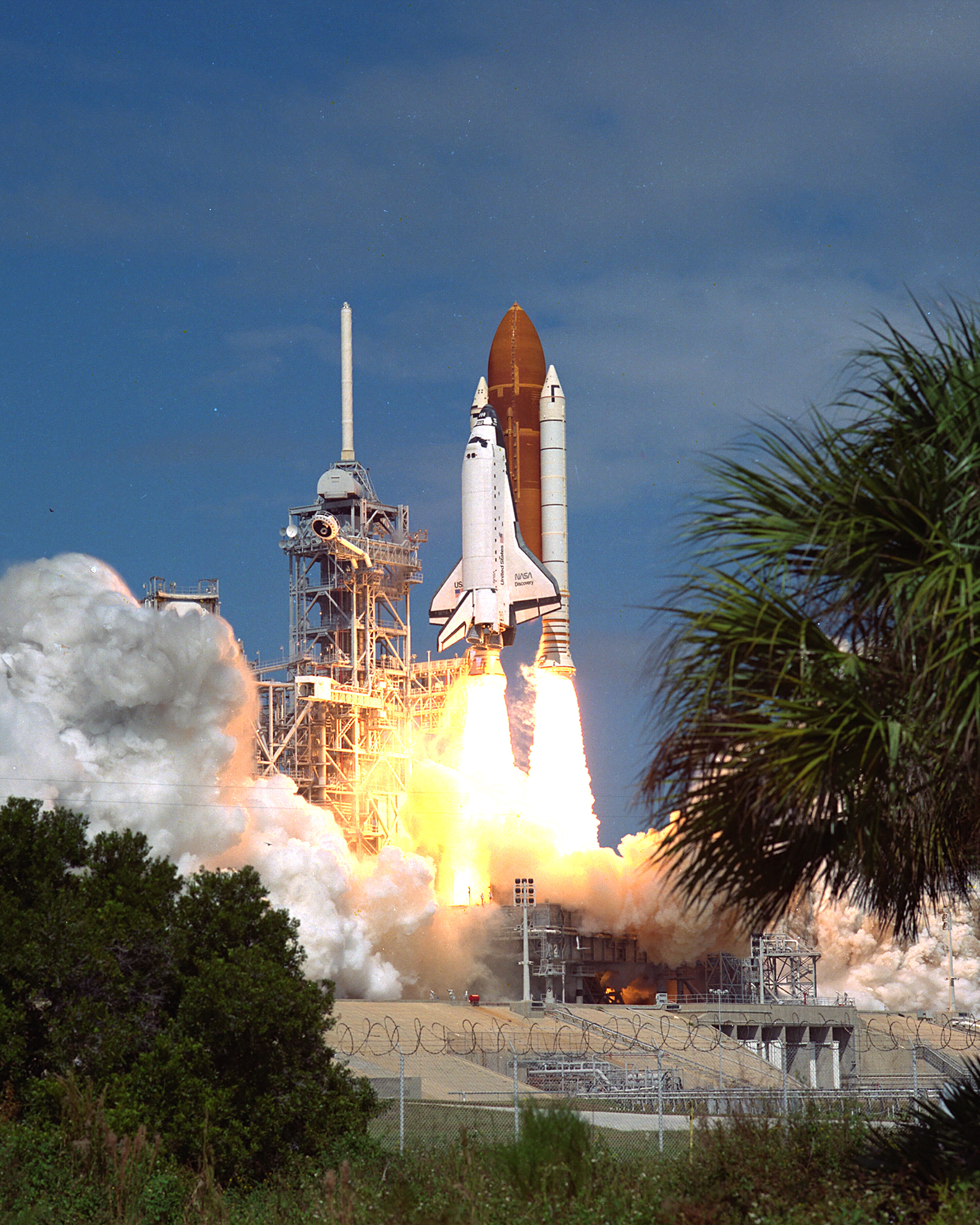 The Return to Flight launch of the Space Shuttle Discovery and its five man crew from Pad 39-B at 11:37 a.m. on September 29, 1988.